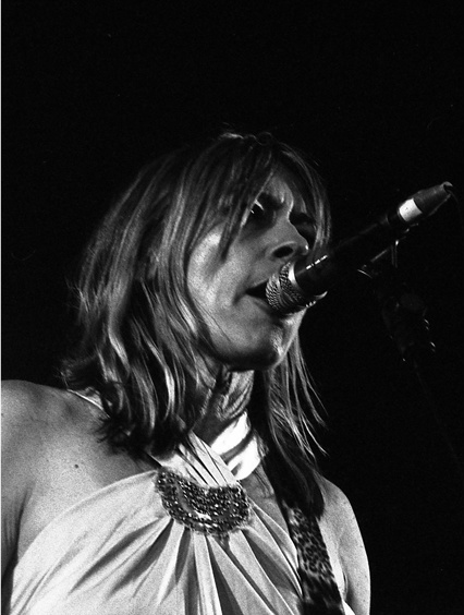 Kim Gordon with Sonic Youth at All Tomorrow's Parties festival, 2008